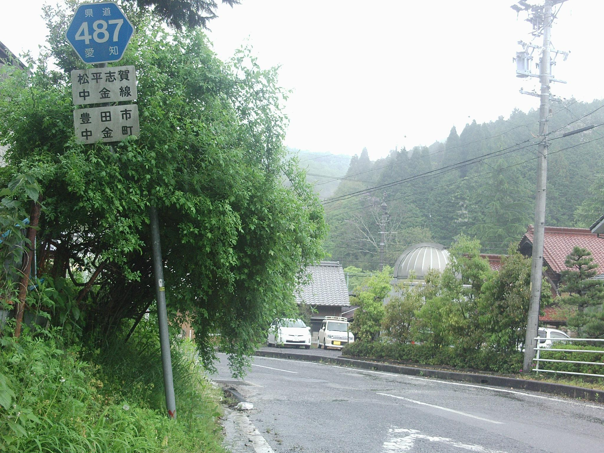 Aichi prefectural road No.487 in Nakaganecho, Toyota, Aichi.